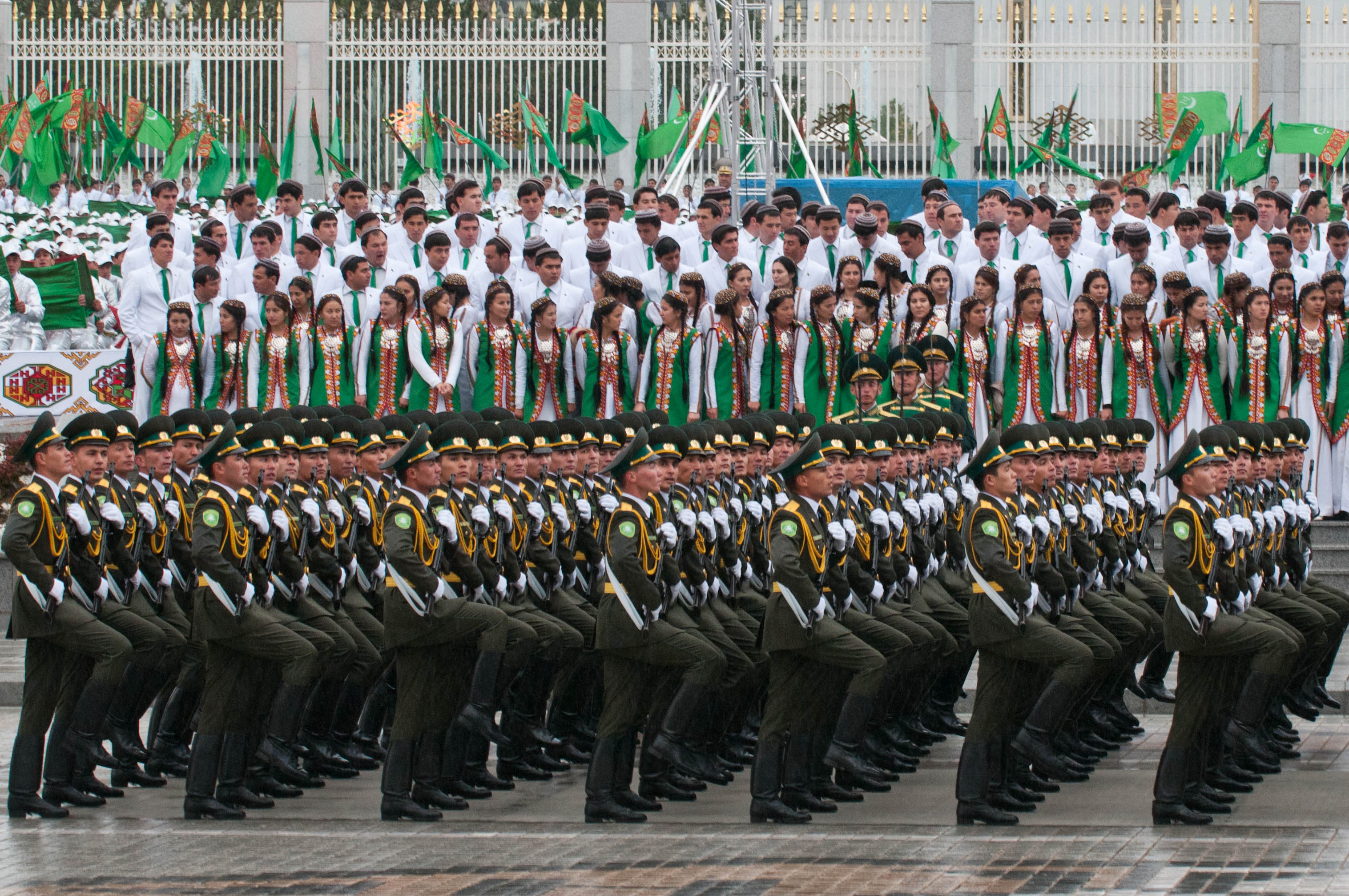 Celebrating the 20th year of independence in Turkmenistan